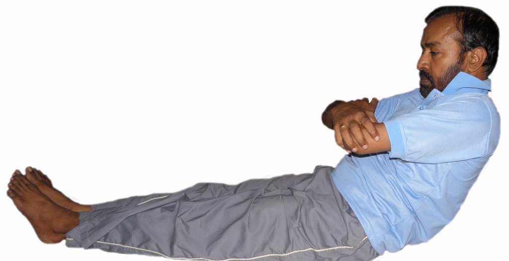 Opposite Balancing Bear pose